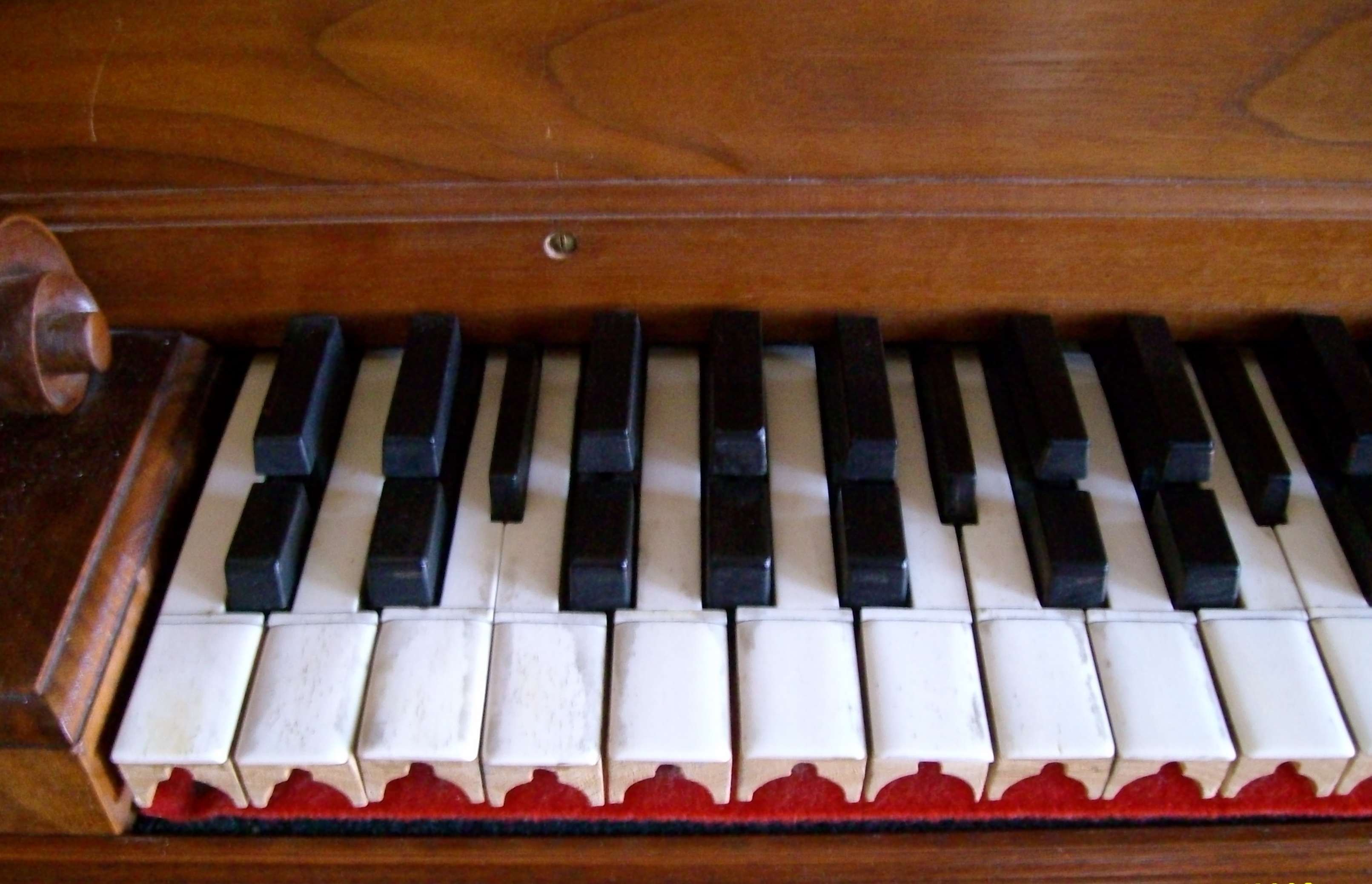 Cembalo universale (Organeum Weener): Keyboard with "subsemitonia"